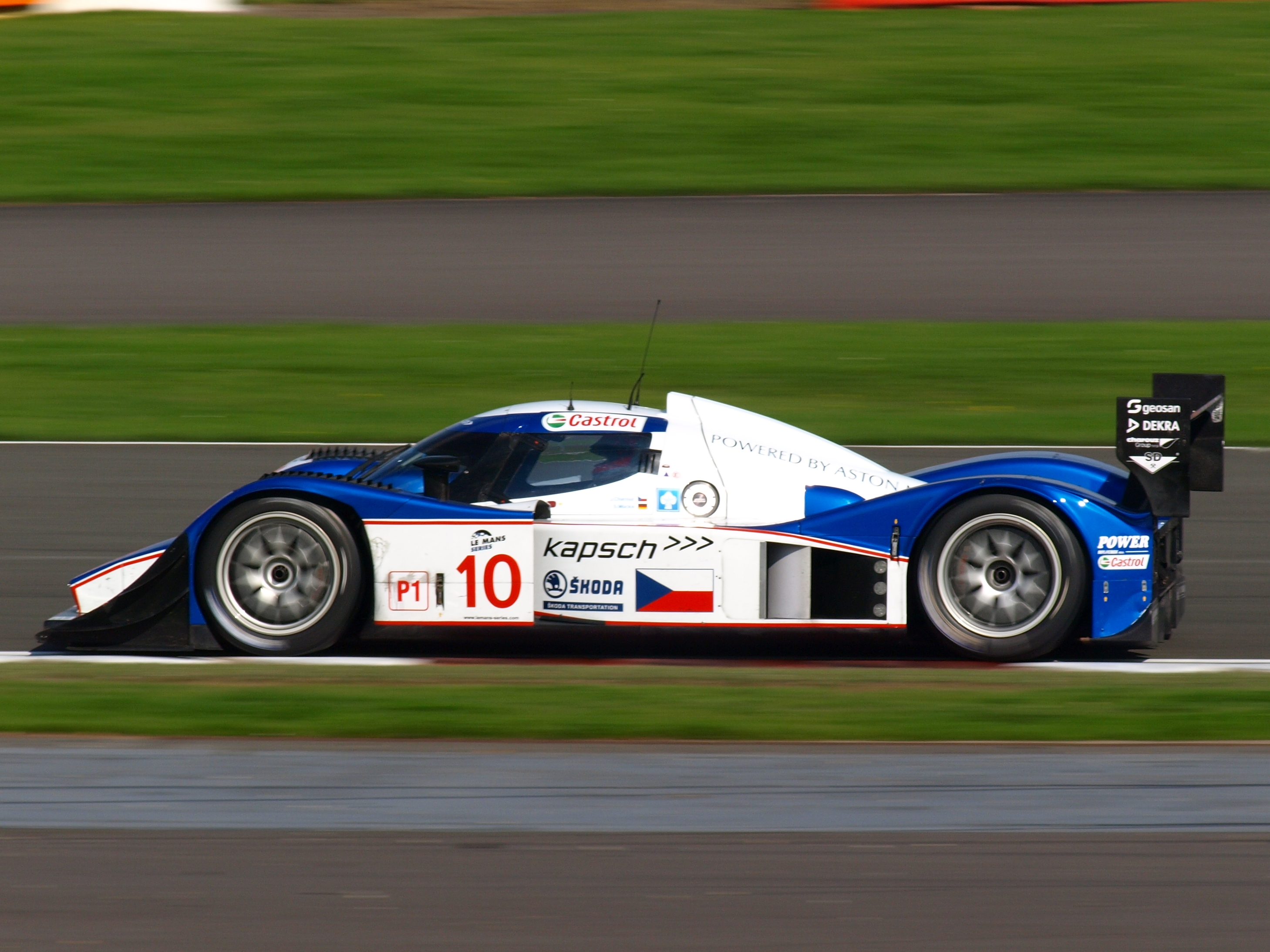 Charouz Racing System's Lola B08/60-Aston Martin at the 2008 1000km of Silverstone driven by Stefan Mücke.